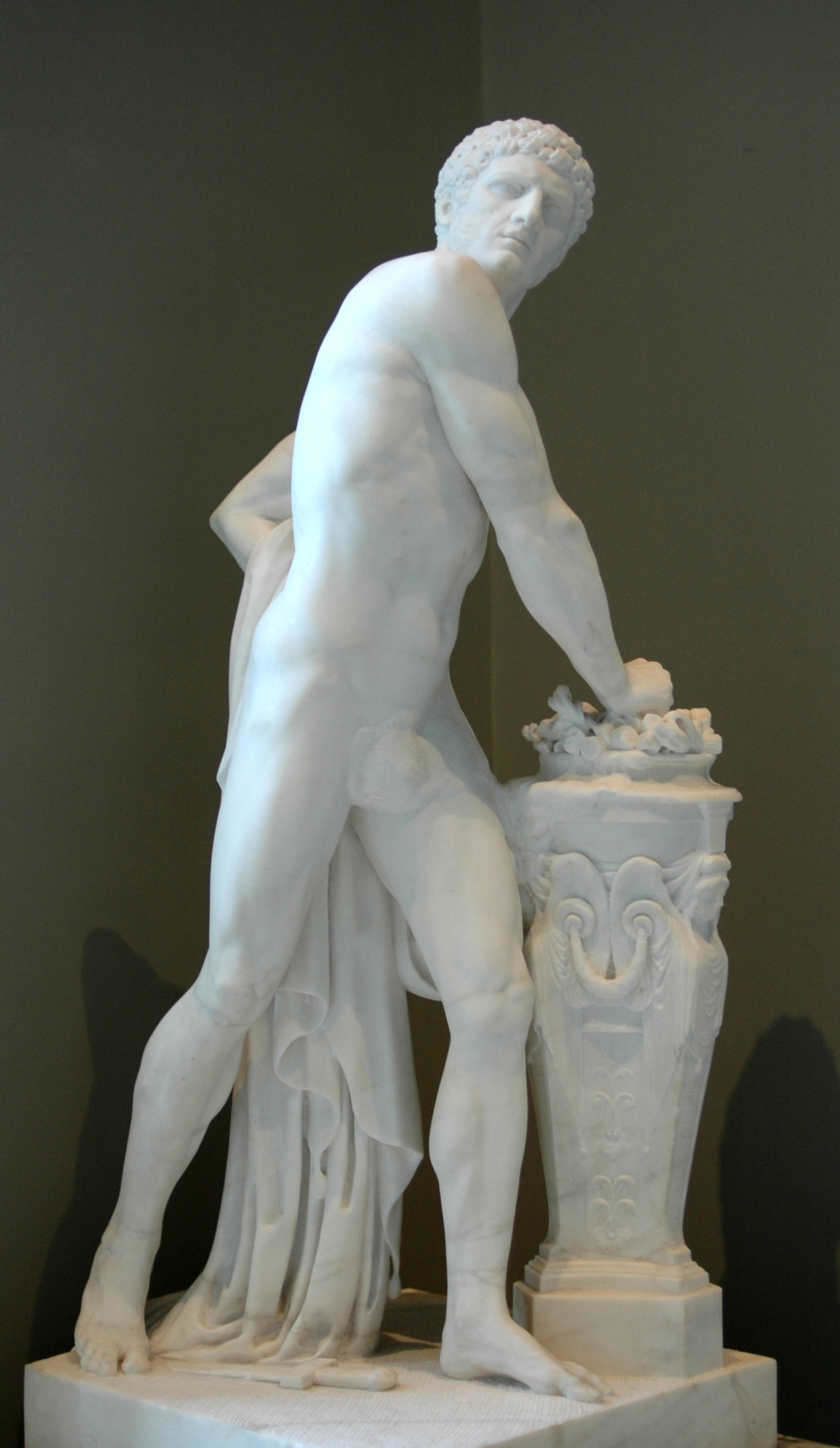 Reception piece for the French Royal Academy, 1791. Marble.